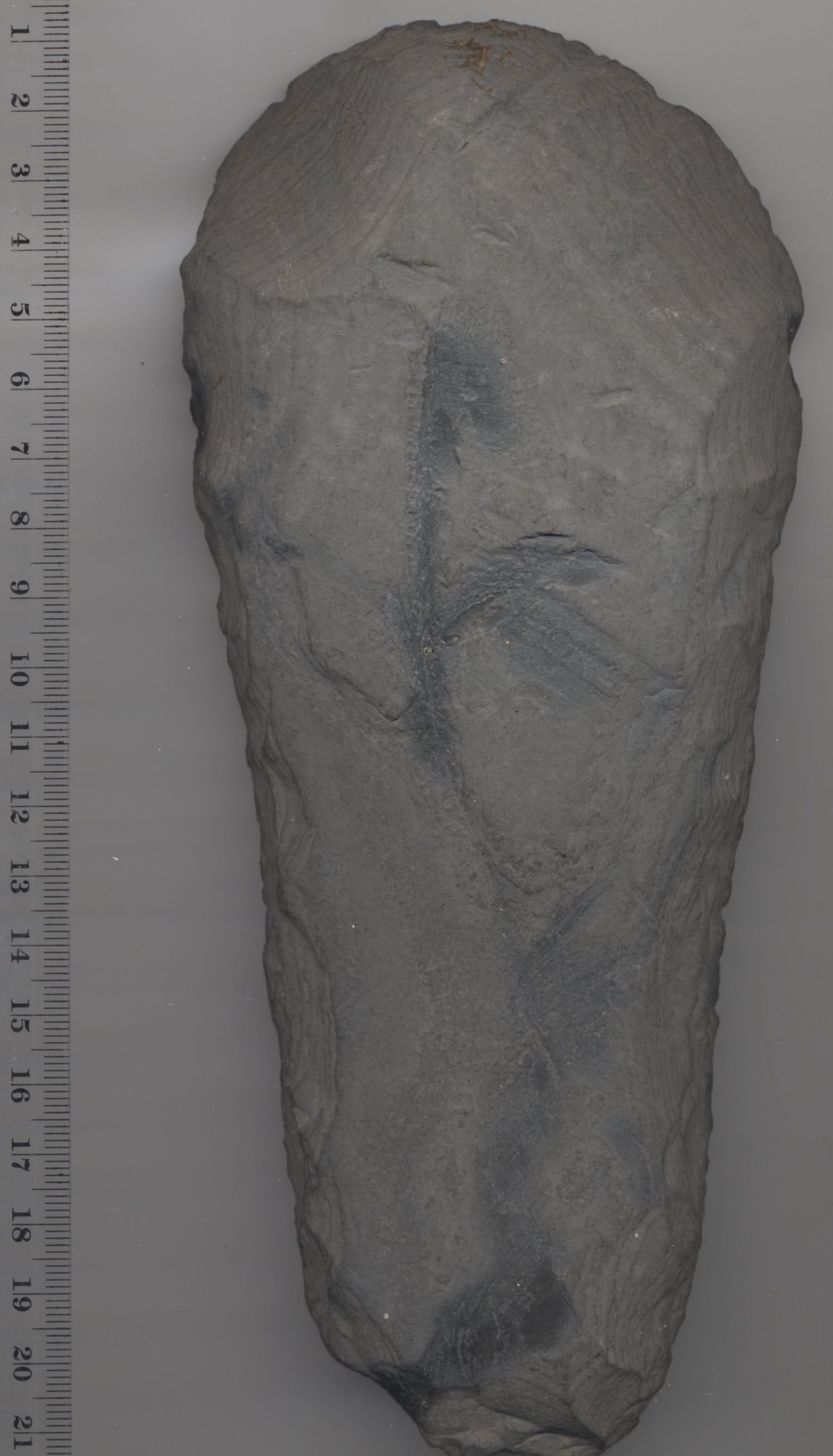 mud-stone axe, mesolithic or neolithic, from Doolin, County Clare, Ireland--Bogman (talk) 11:19, 9 April 2010 (UTC)